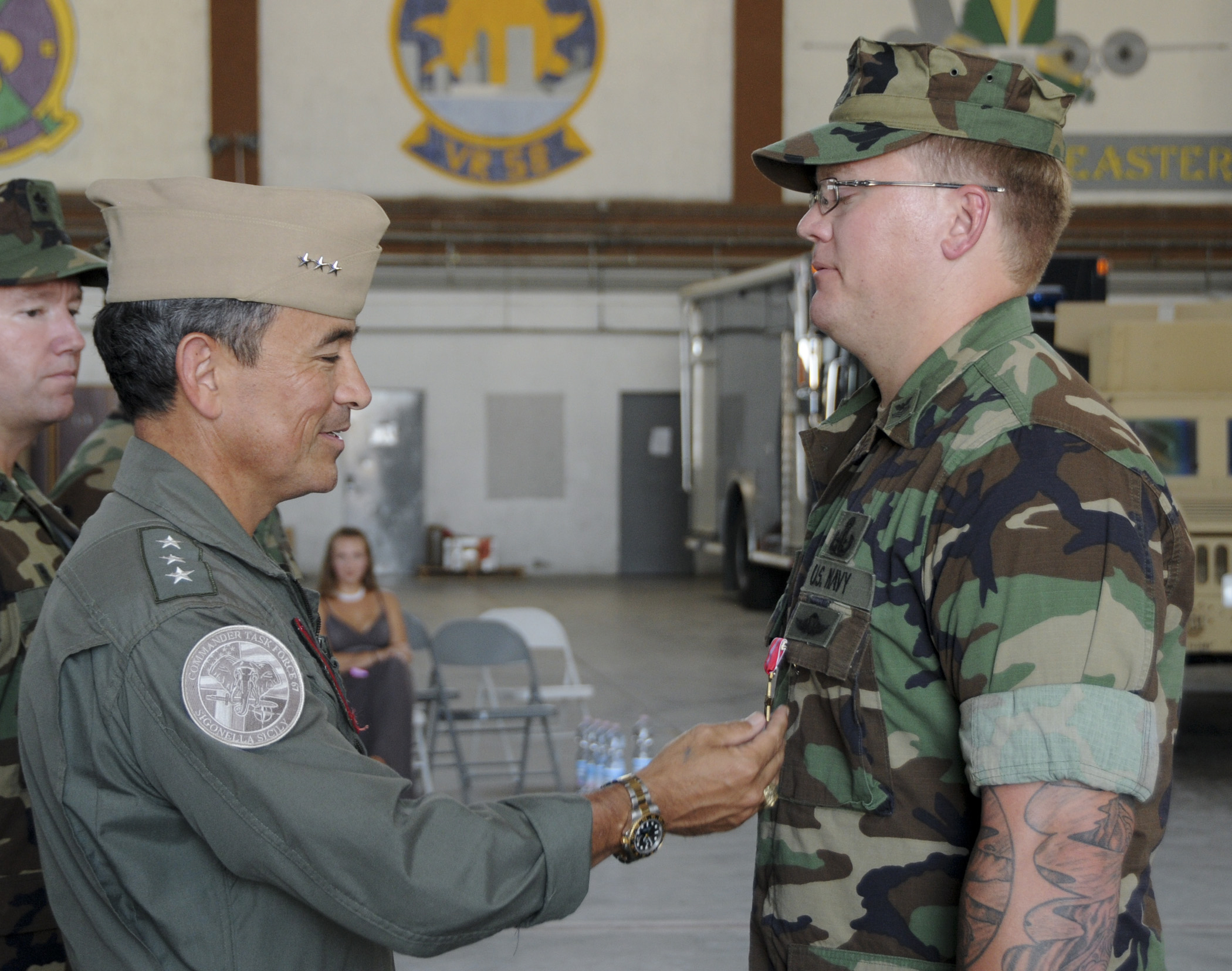 Petty Officer 1st Class William Greathouse, explosive ordnance disposalman, from Powell, Wyo., attached to Explosive Ordnance Disposal Mobile Unit 8, stands at attention as Vice Adm. Harry B. Harris Jr., commander of the U.S. 6th Fleet, pins the Bronze Star medal on his chest. Greathouse earned his Bronze Star for his actions above and beyond the call of duty during a deployment to Afghanistan this year in support of Operation Enduring Freedom.